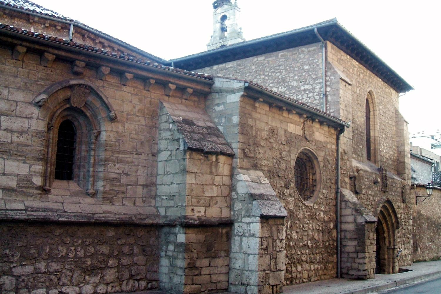 Convento de Santa Clara, Burgos (Castilla y León, España)